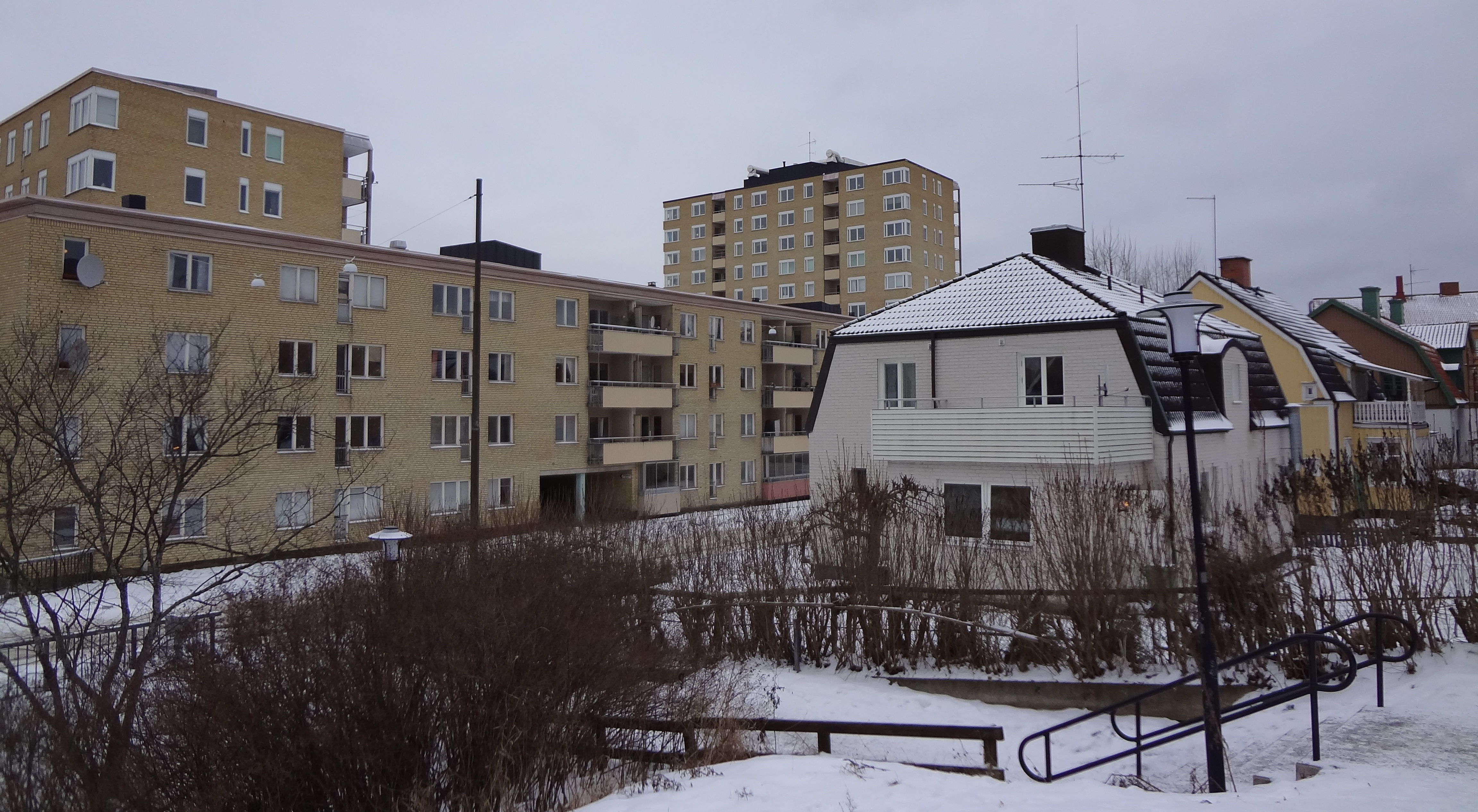 Nyfors, a part of Eskilstuna, Sweden.